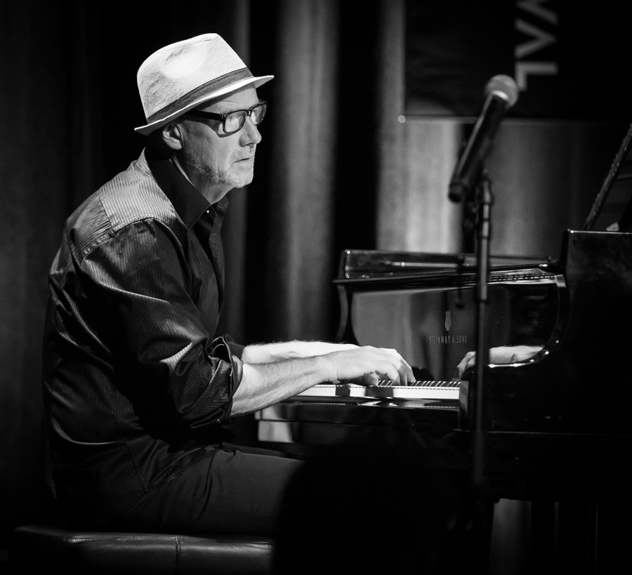 Jon Balke with The Oslo Jazz Festival Orchestra 2016 at the stage of Nasjonal Jazzscene Victoria. The concert was part of the Oslo Jazz Festival in Norway and took place on 19. August 2016. Lineup: Mathias Eick (trumpet) Trygve Seim (saxophone) Jon Balke (piano) Ellen Andrea Wang (double bass) Gard Nilssen (drums)